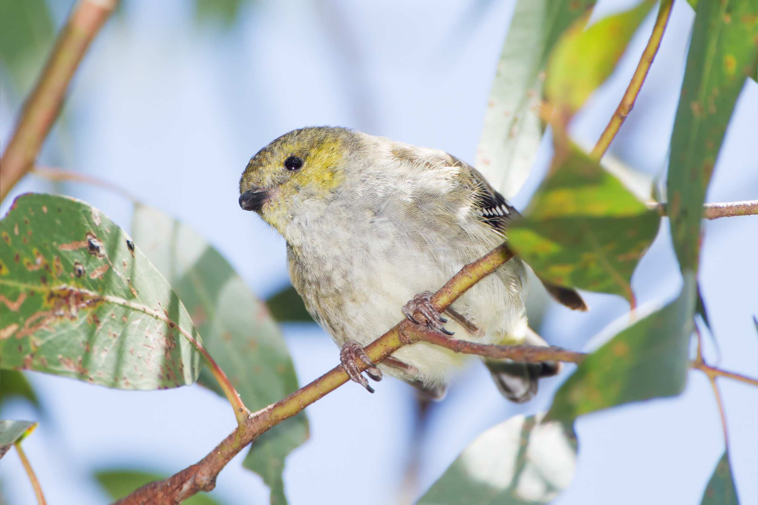 Forty-spotted Pardalote (Pardalotus quadragintus), Peter Murrell Reserve, Tasmania, Australia